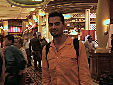 Antonio Esfandiari in Festa al Lago, World Poker Tour 2004.